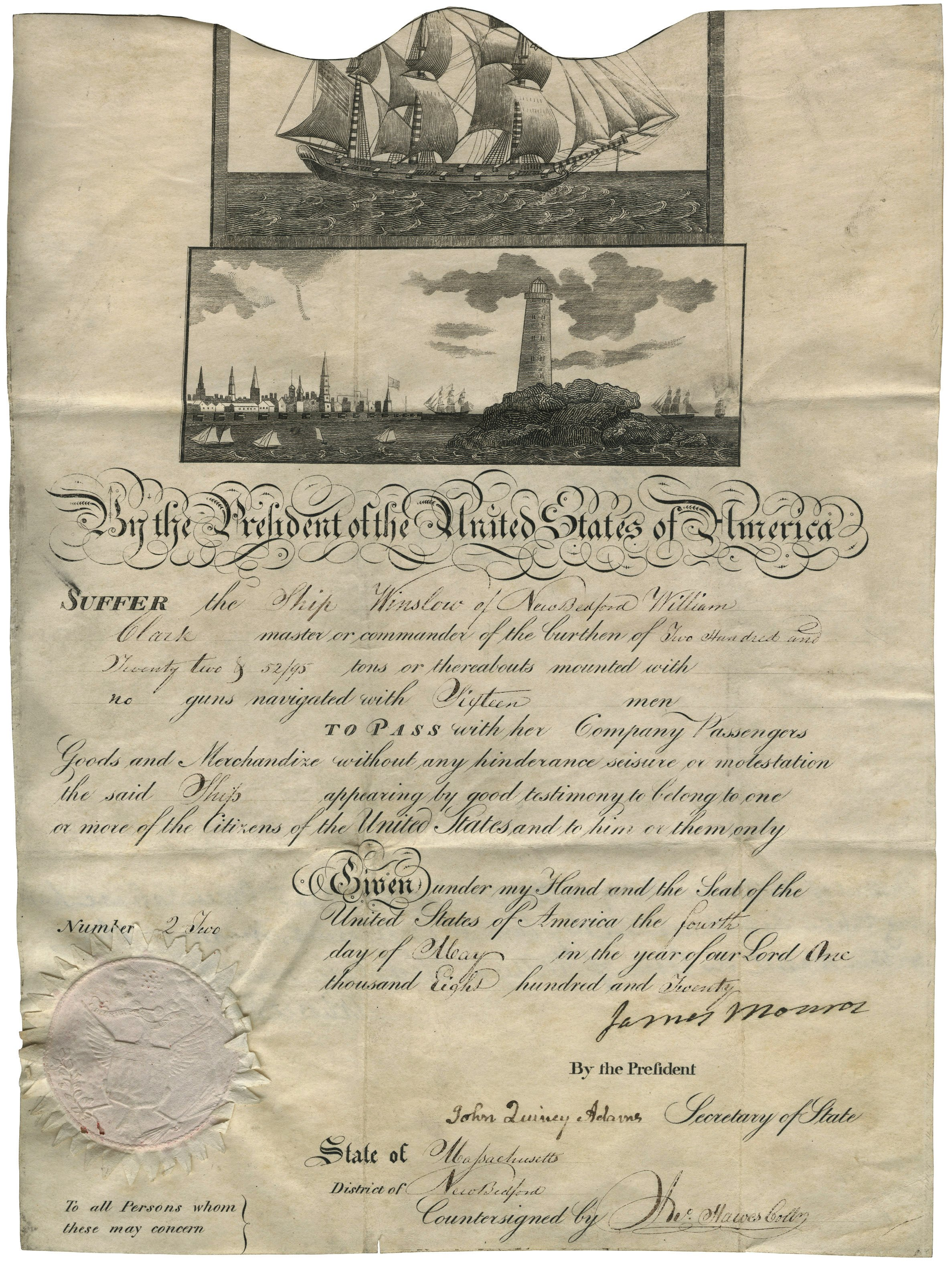 A Mediterranean passport for the ship Winslow from New Bedford, MA, dated May 4, 1820. It is signed by President James Monroe, and Secretary of State John Quincy Adams.